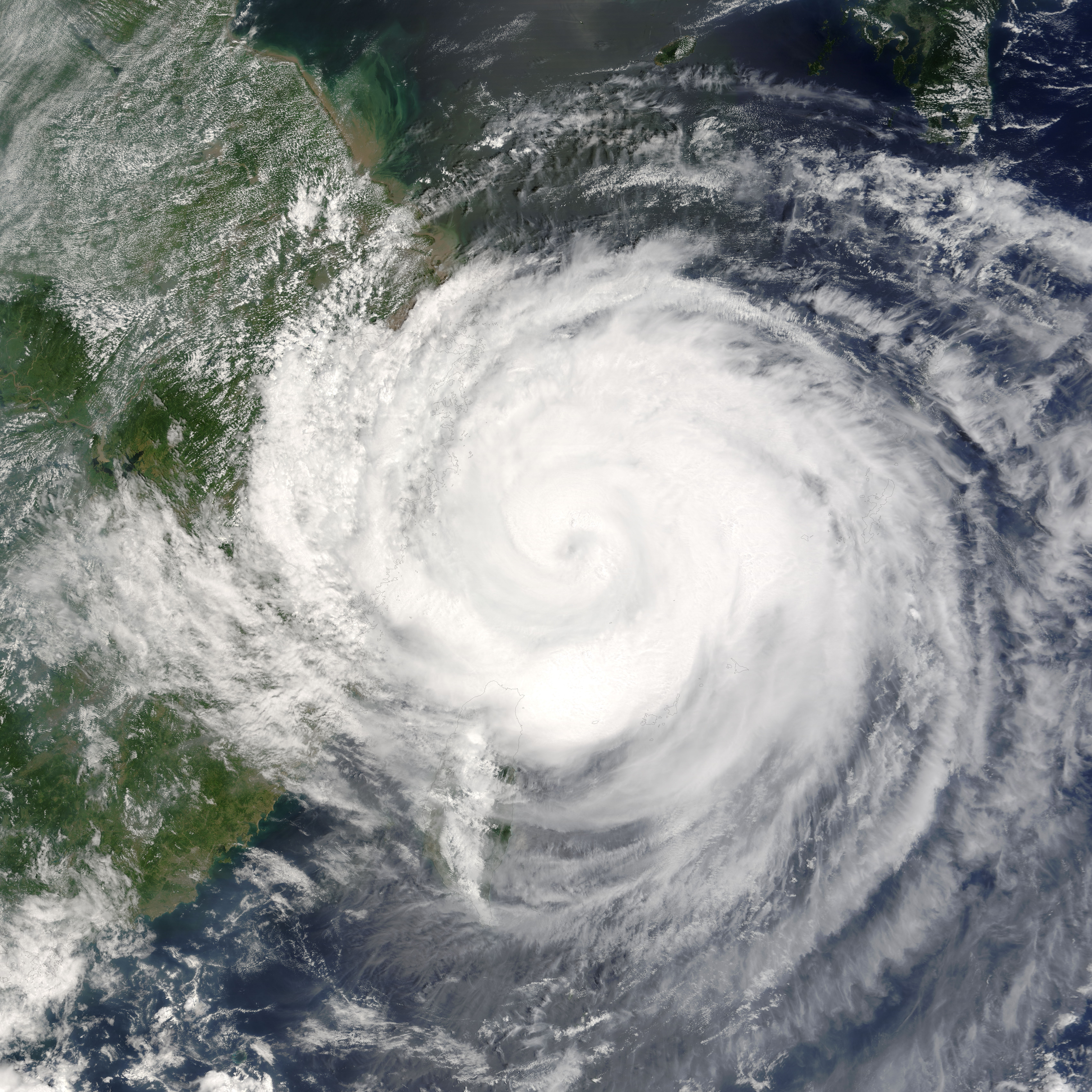 The Moderate Resolution Imaging Spectroradiometer (MODIS) aboard NASA’s Terra satellite captured this true-color image of Typhoon Rananim on August 12, 2004, at 2:40 UTC. At the time this image was taken, Rananim was located approximately 150 nautical miles northeast of Taipei, Taiwan and had maximum sustained winds of 90 knots with higher gusts 110 knots. Rananim was moving towards the north-northwest at 13 knots.